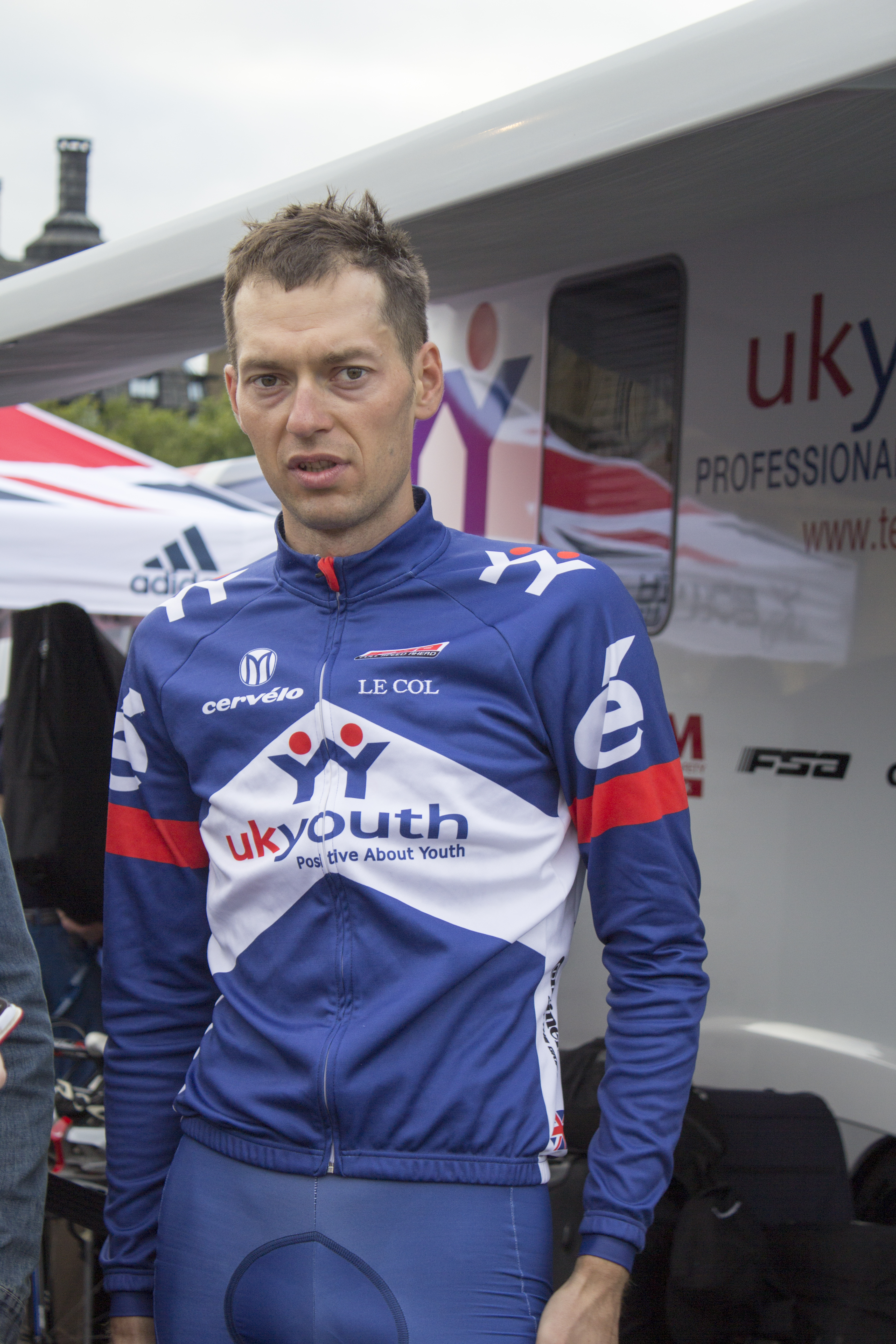 Marcin Bialoblocki post race after Tour of Britain 2013 stage 8.